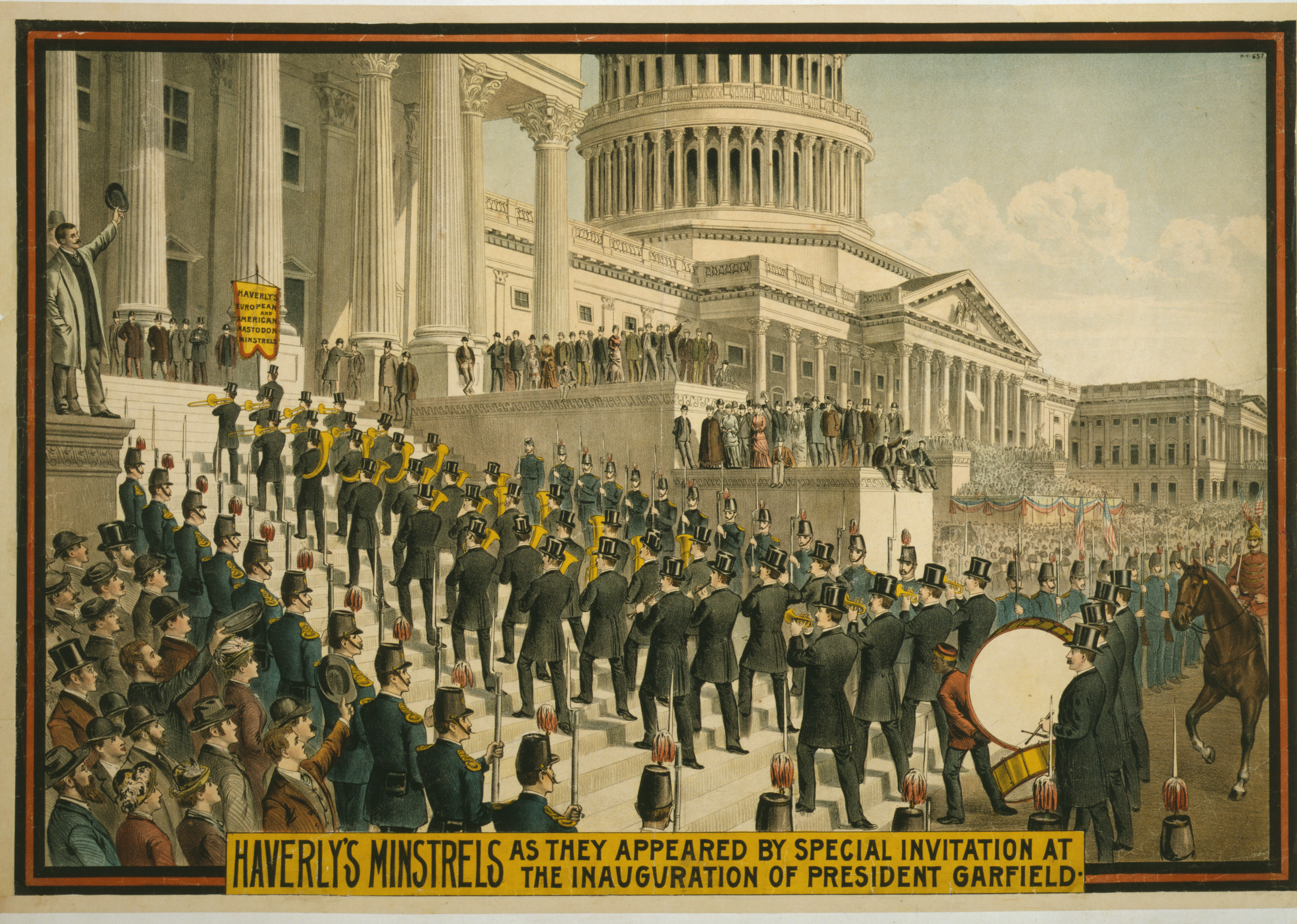 Large band goes up steps of Capitol building, Washington, D.C. USA Public Domain. Suggested credit: Library of Congress via pingnews. Additional information from source: TITLE: Haverly's European and American Mastodon Minstrels CALL NUMBER: POS - MIN - .H39, no. 2 (C size) [P&P] REPRODUCTION NUMBER: LC-USZC4-11109 (color film copy transparency) LC-USZCN6-11 (color film copy neg.) No known restrictions on publication. MEDIUM: 1 print (poster) : lithograph, color ; 64 x 94 cm. CREATED/PUBLISHED: [ca. 1898] NOTES: Caption: Haverly's Minstrels as they appeared by special invitation at the inauguration of President Garfield. Note: That would make the year 1881 N.Y.-657. SUBJECTS: Garfield, James A. (James Abram), 1831-1881--Inauguration, 1881. Haverly's Minstrels--Performances. United States Capitol (Washington, D.C.) Bands. Crowds--Washington (D.C.) Presidential inaugurations--Washington (D.C.) Military personnel--American--Washington (D.C.) Minstrel shows. FORMAT: Theatrical posters American. Lithographs Color. PART OF: Minstrel Poster Collection (Library of Congress) REPOSITORY: Library of Congress Prints and Photographs Division Washington, D.C. 20540 USA DIGITAL ID: (digital file from intermediary roll copy film) var 1710 (digital file from color film copy transparency) cph 3g11109 (digital file from color film copy neg.) cph 3j00011 CARD #: var1994001684/PP